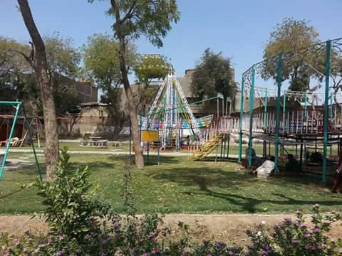 The shah Lateef Park of Tando Allahyar